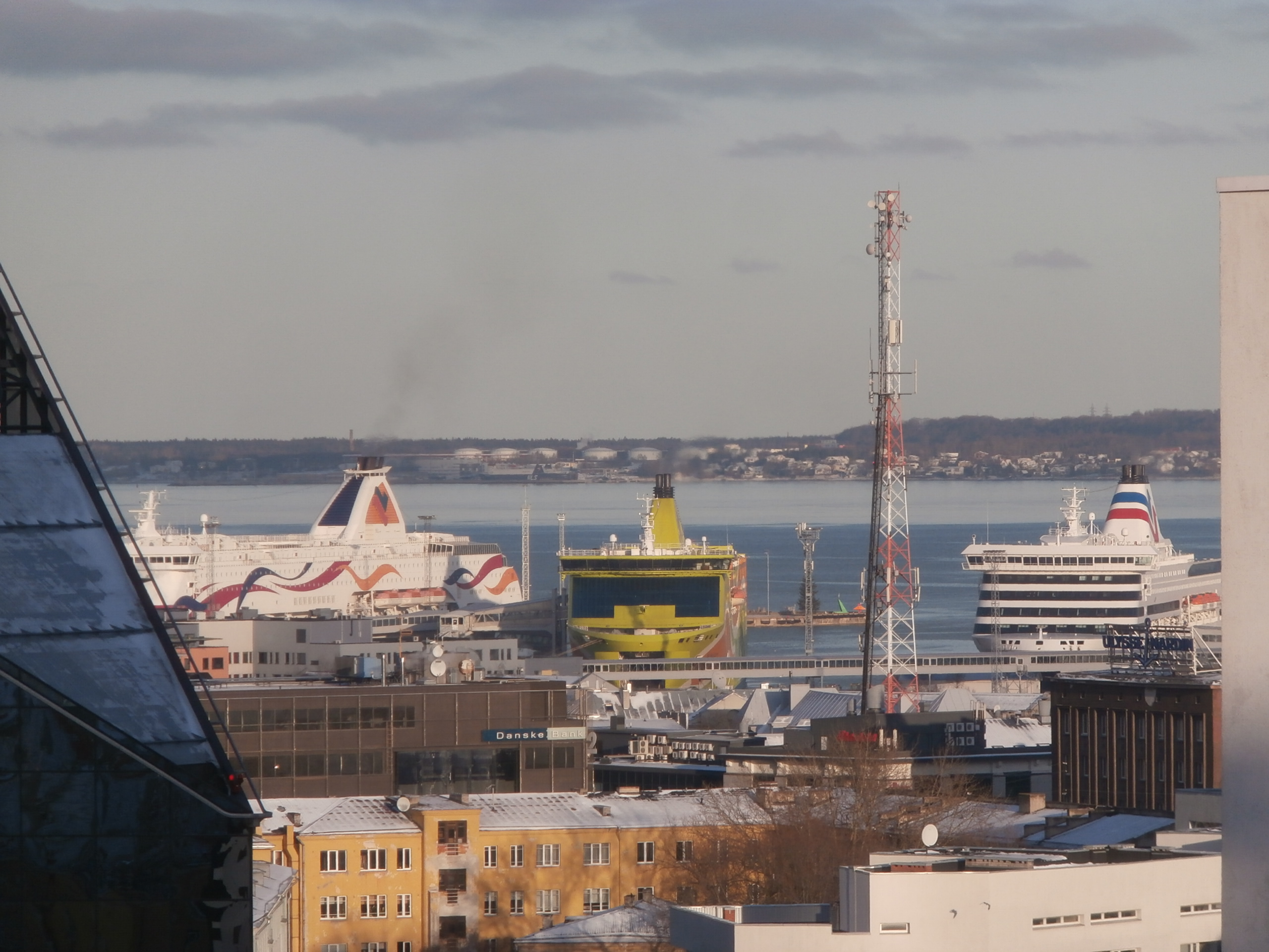 Baltic Queen, Superstar and Victoria I in Port of Tallinn 6 January 2015